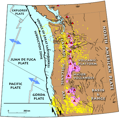 Detailed geological map of the Cascade Range and environs. Yellow rings indicate recorded earthquakes. Black lines show faults active within past 10,000 years.